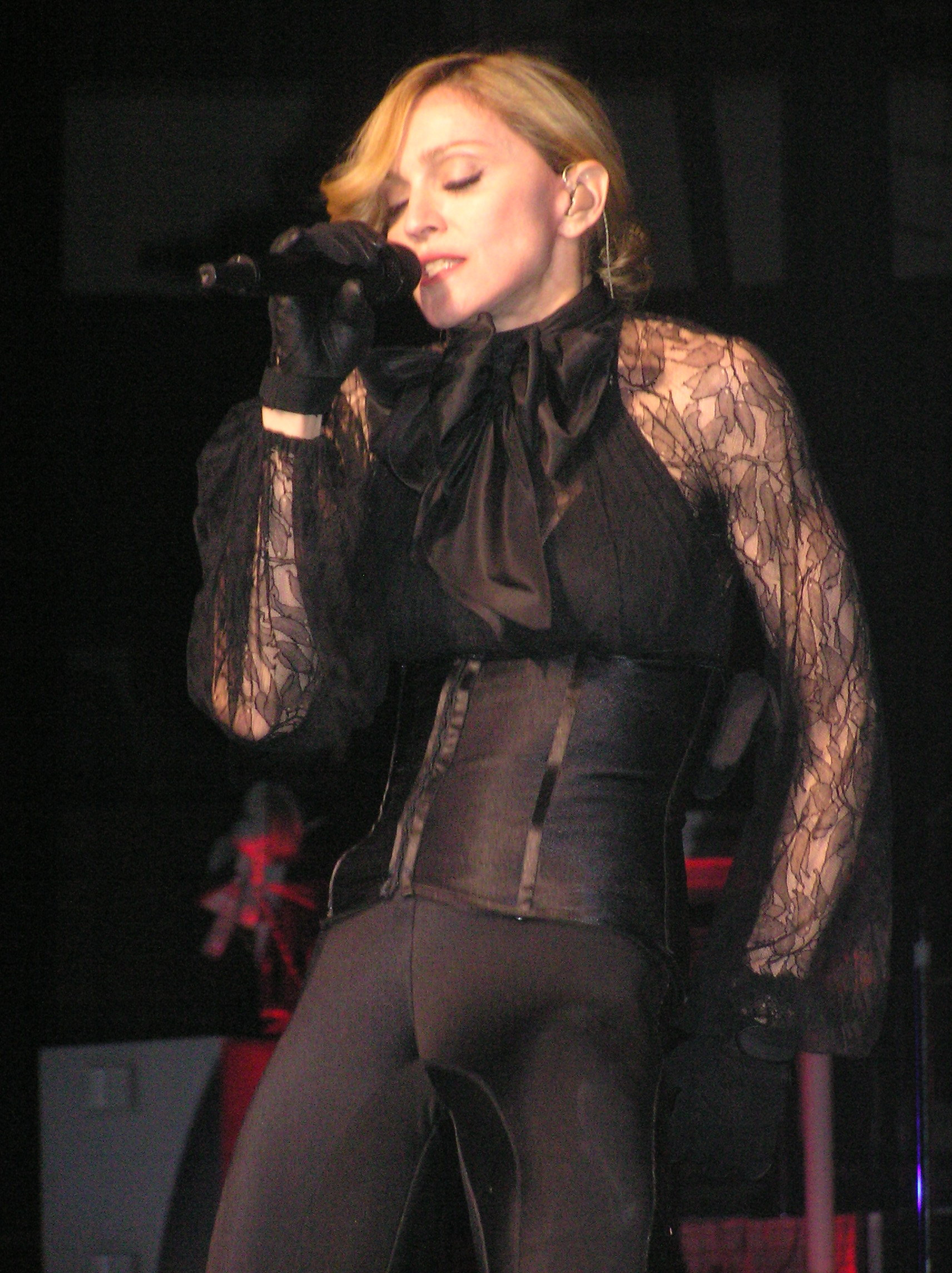 Madonna concert at Fresno